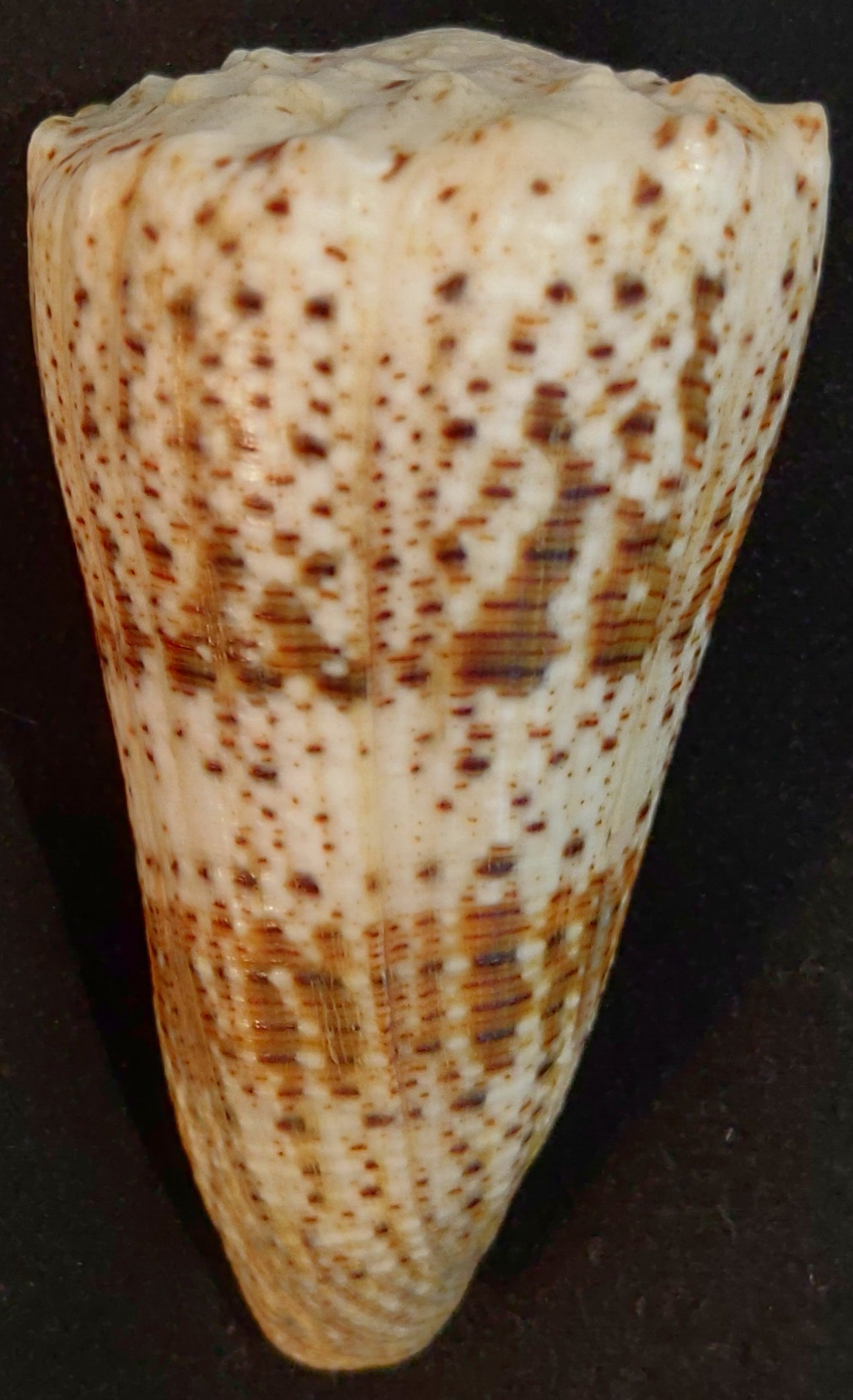 Conus Imperialis Compactus Back